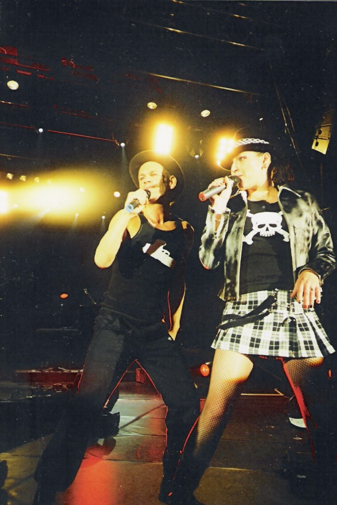 Rosenstolz on the "Herz"-tour in Osnabrück